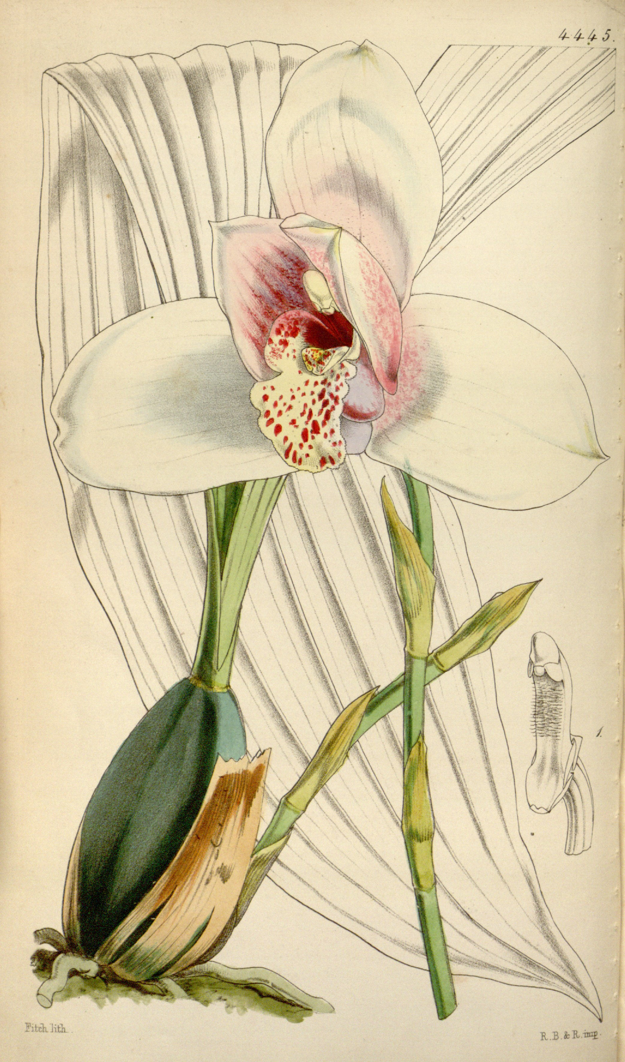 Illustration of Lycaste skinneri